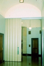 WON door accordion fire partition (partially retracted) allows ceiling and wall clearance to be maintained. Ariel Rios building, Washington, DC.